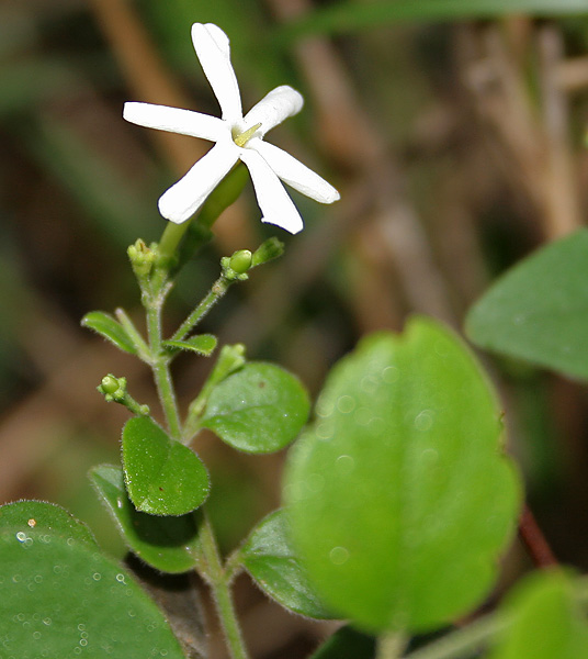 Juhi Jasminum auriculatum at Talakona forest, in Chittoor District of Andhra Pradesh, India.